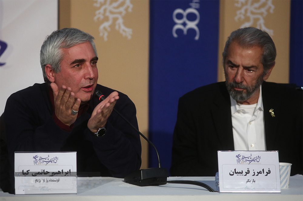 Exodus movie press conference at the 38th edition of the Fajr Film Festival at Mellat cineplex